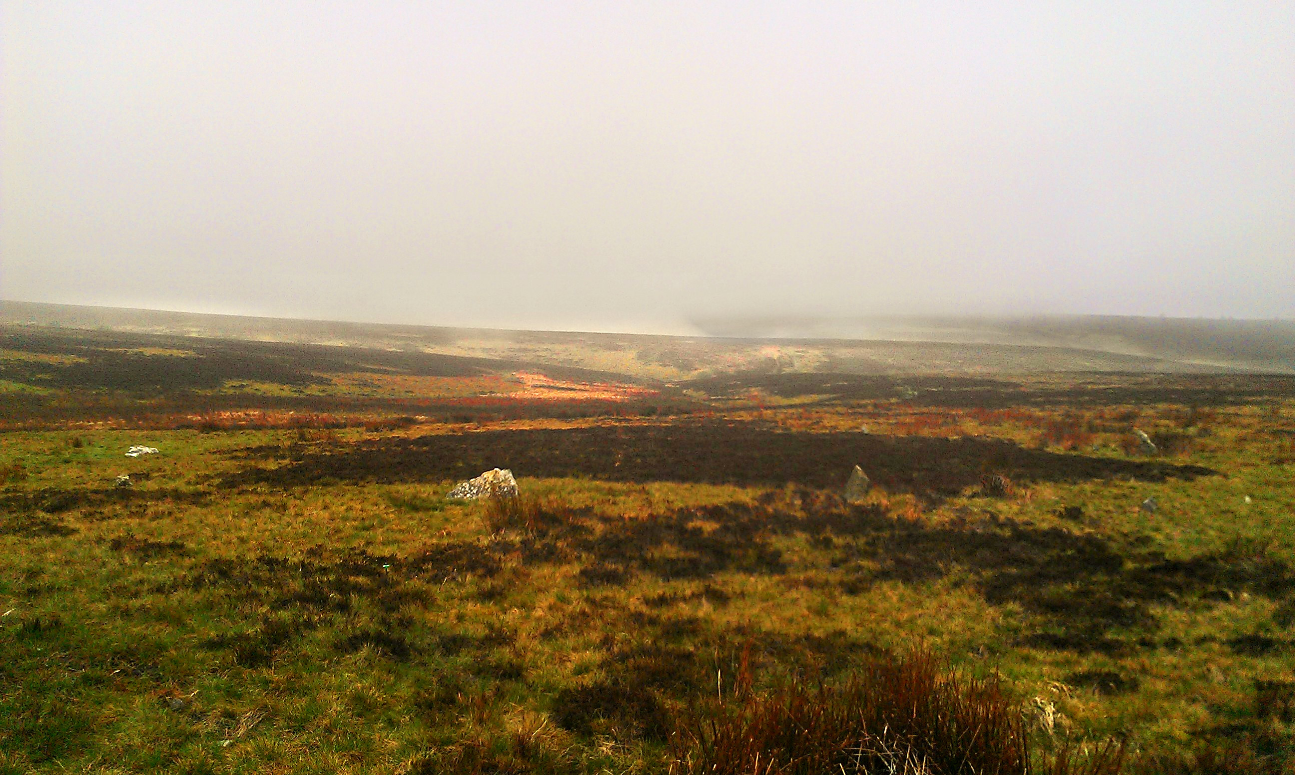 Porlock stone circle, a Late Neolithic/Early Bronze Age ritual monument in Exmoor, Somerset.